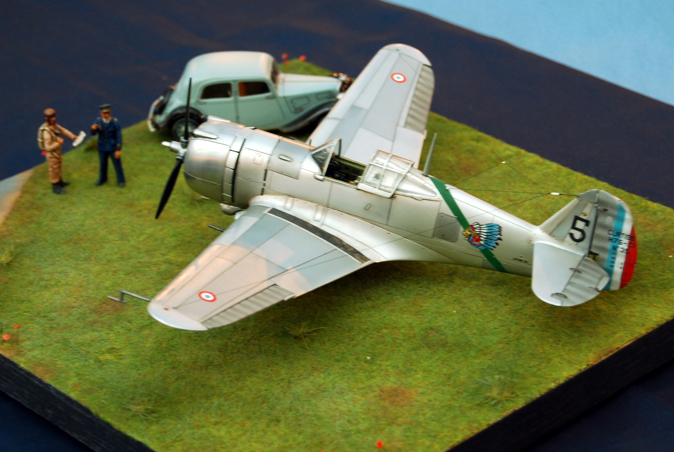 Photo ref; DSC0978-2012